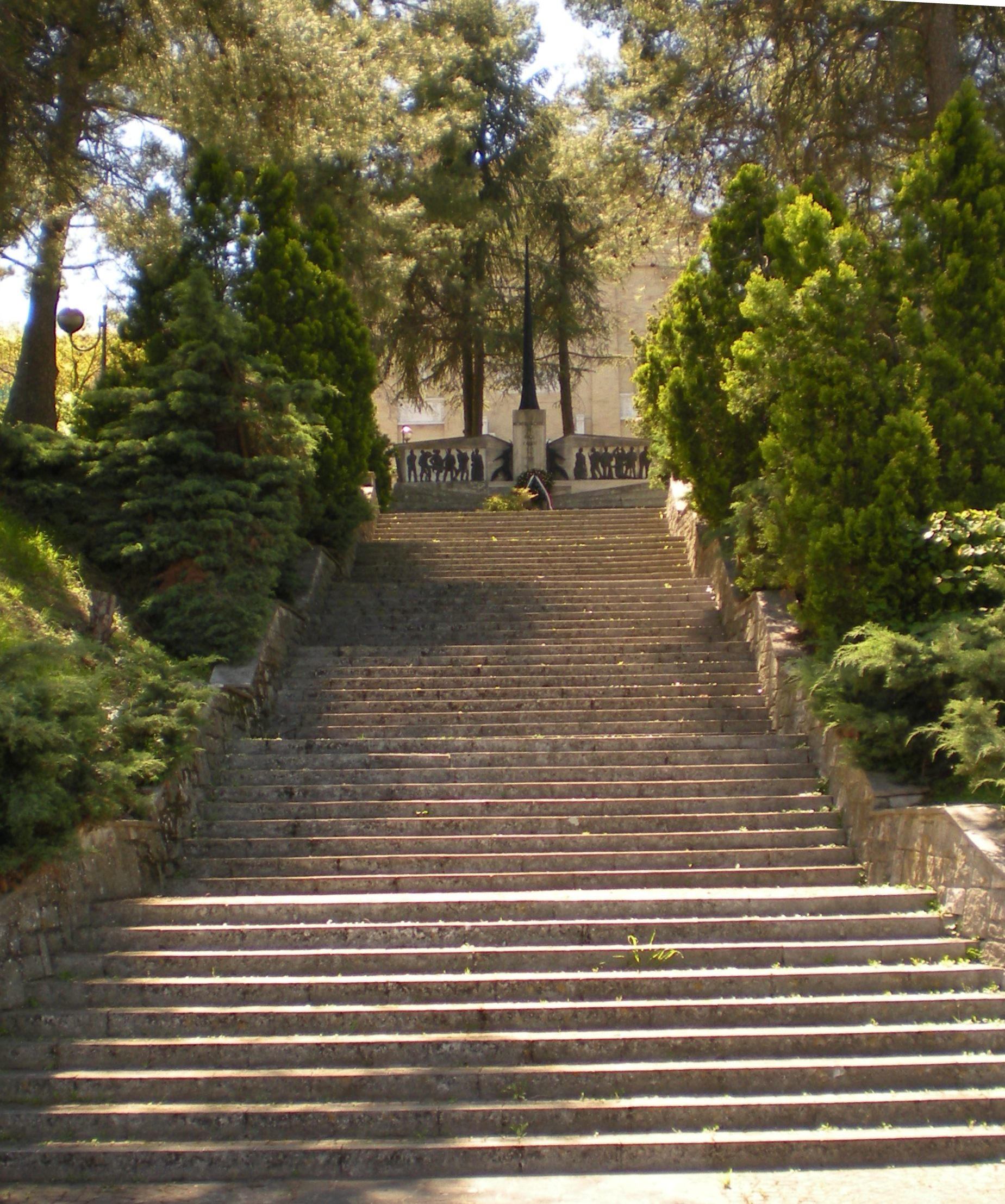 12 ottobre 2010